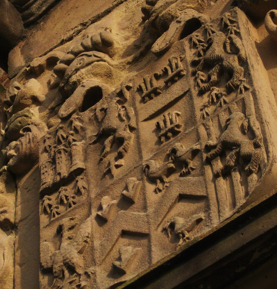 stone carving